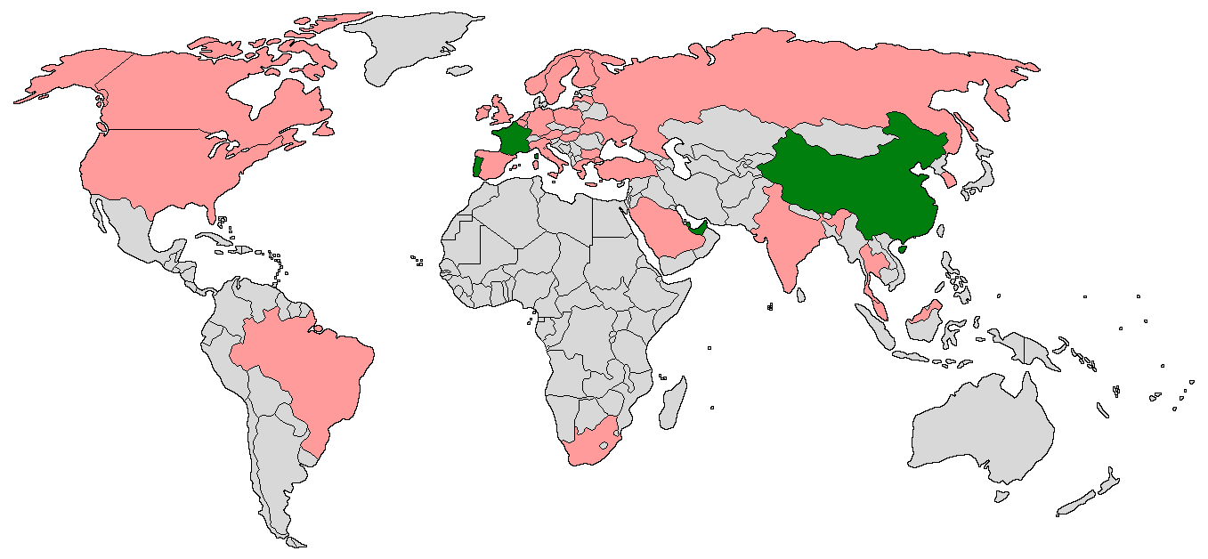 World map displaying the countries raced in by the Formula 1 Powerboat World Championship in its 2015 season in green. Former host nations shown in pink.